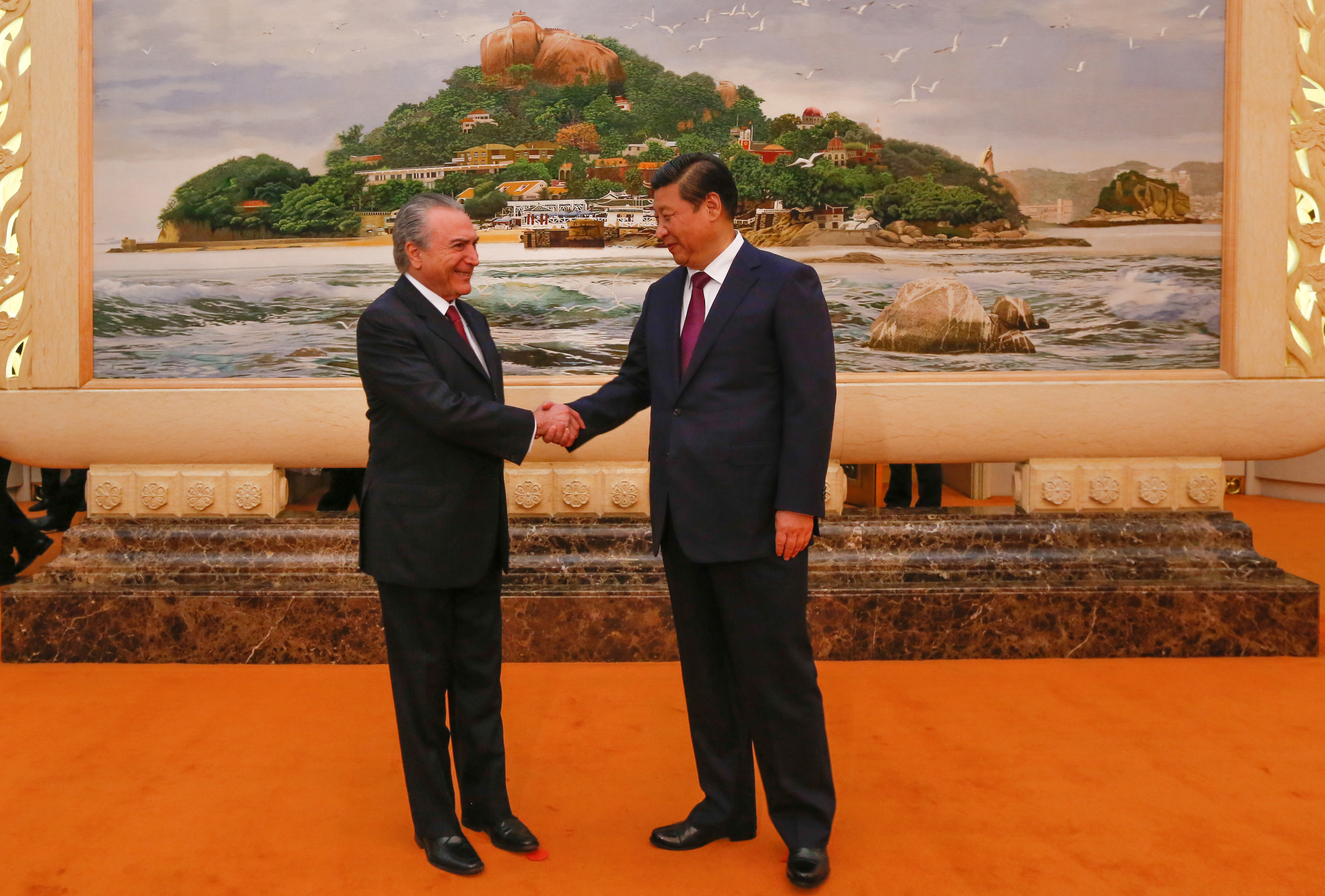 07-11-2013 - Pequim - Vice-presidente Michel Temer em encontro com o presidente da República Popular da China, no Palácio do Povo, Pequim.